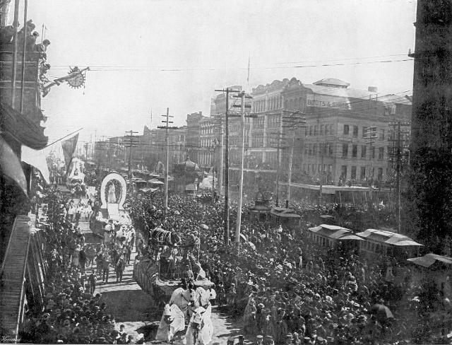 New Orleans Mardi Gras parade on Canal Street, early 1890s. View looking towards intersection of Chartres/Camp Street, with gazebo on neutral ground. Horse drawn floats on left side of street. Horse trams on neutral ground.